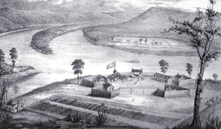 Fort Harmar, constructed in the autumn of 1785 at the confluence of the Ohio and Muskingum rivers, on the west side of the mouth of the Muskingum River. “The position was judiciously chosen, as it commanded not only the mouth of the Muskingum, but swept the waters of the Ohio, from a curve in the river for a considerable distance both above and below the fort.” The view of the image is looking forward towards the Ohio, with the mouth of the Muskingum on the left; in the background, across the Ohio River, are houses of the settlement that would later become Williamstown. Buckley Island is located to the upper left in the Ohio River. The Campus Martius fortification of the Marietta settlement was built on the east side of the Muskingum and upriver from Fort Harmar during 1788, and fully completed in 1791 at the start of the Northwest Indian War. The Picketed Point fortification of Marietta was built directly across the Muskingum from Fort Harmar, on the east side of the mouth, during 1791. Image and quote from the book by S. P. Hildreth: Pioneer History: Being an Account of the First Examinations of the Ohio Valley, and the Early Settlement of the Northwest Territory, H. W. Derby and Co., Cincinnati, Ohio (1848). Illustration plate located between pp. 316-17. ColWilliam (talk) 20:54, 11 April 2008 (UTC)